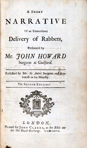 Title page of St André's A Short Narrative of an Extraordinary Delivery of Rabbets (in Hunterian Aa.7.20)